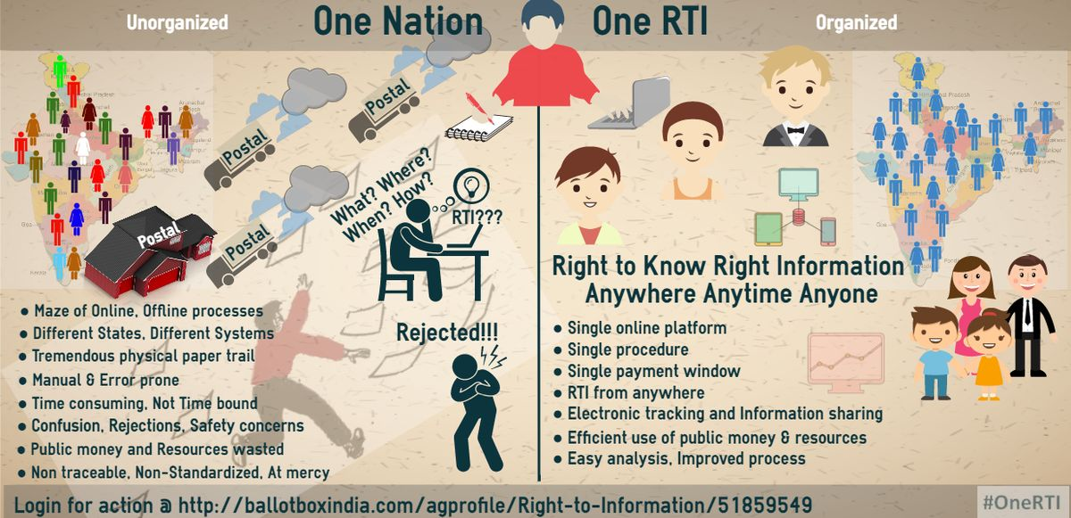 Researchers at ballotboxIndia proposing the concept of One RTI to government agencies both at state and center level.